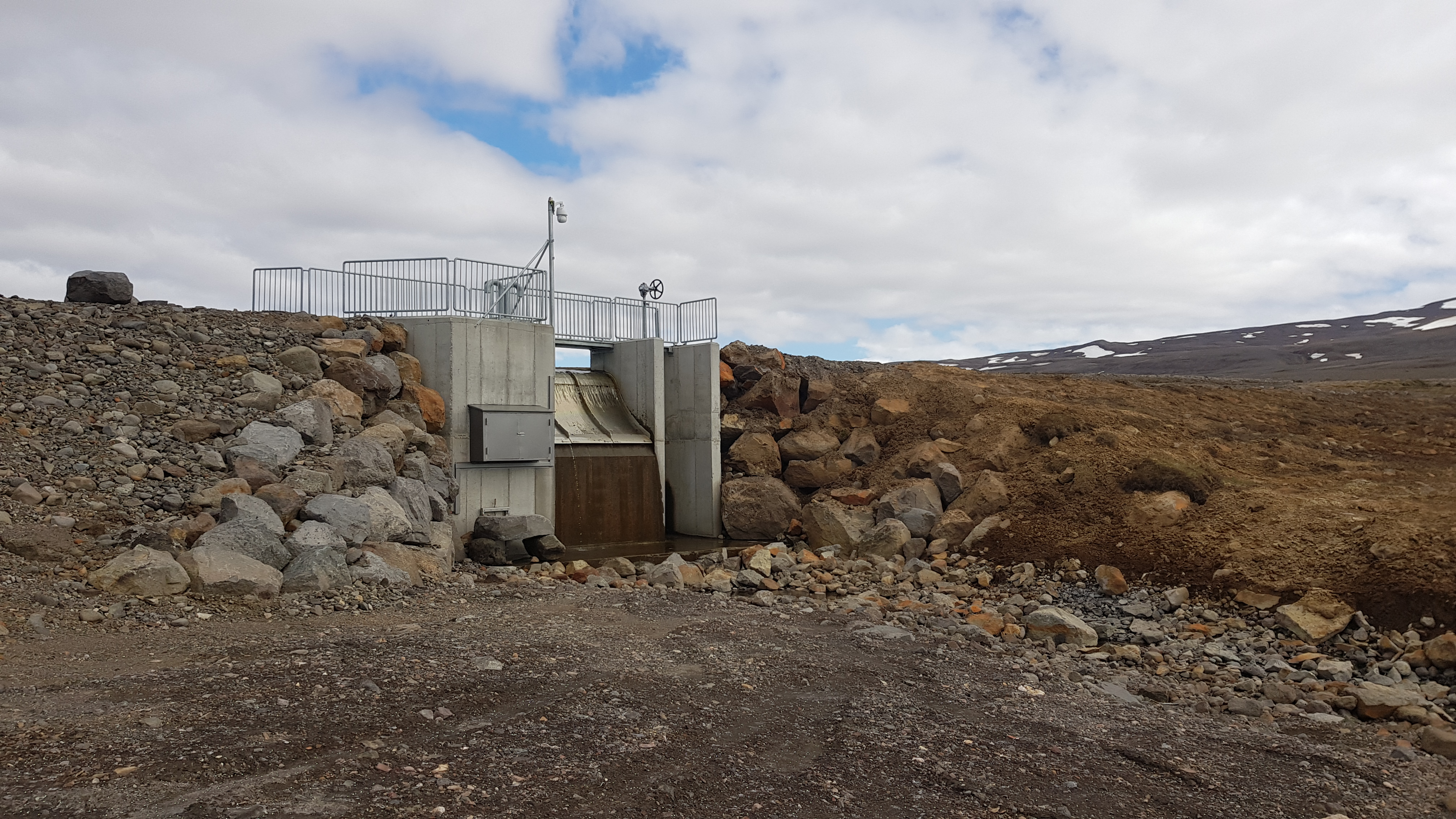 Intake for Urðarfellsvirkjun hydro power plant